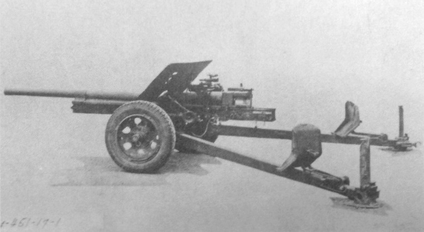 Imperial Japanese Army Experimental 57mm Anti-Tank Gun.